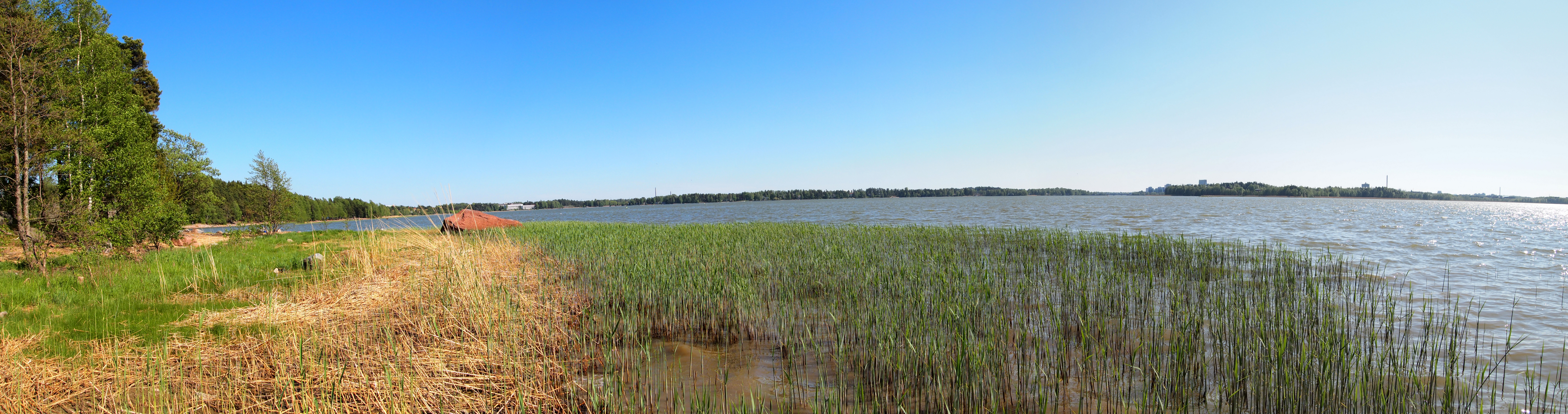 Island Tarvo and bay Laajalahti.